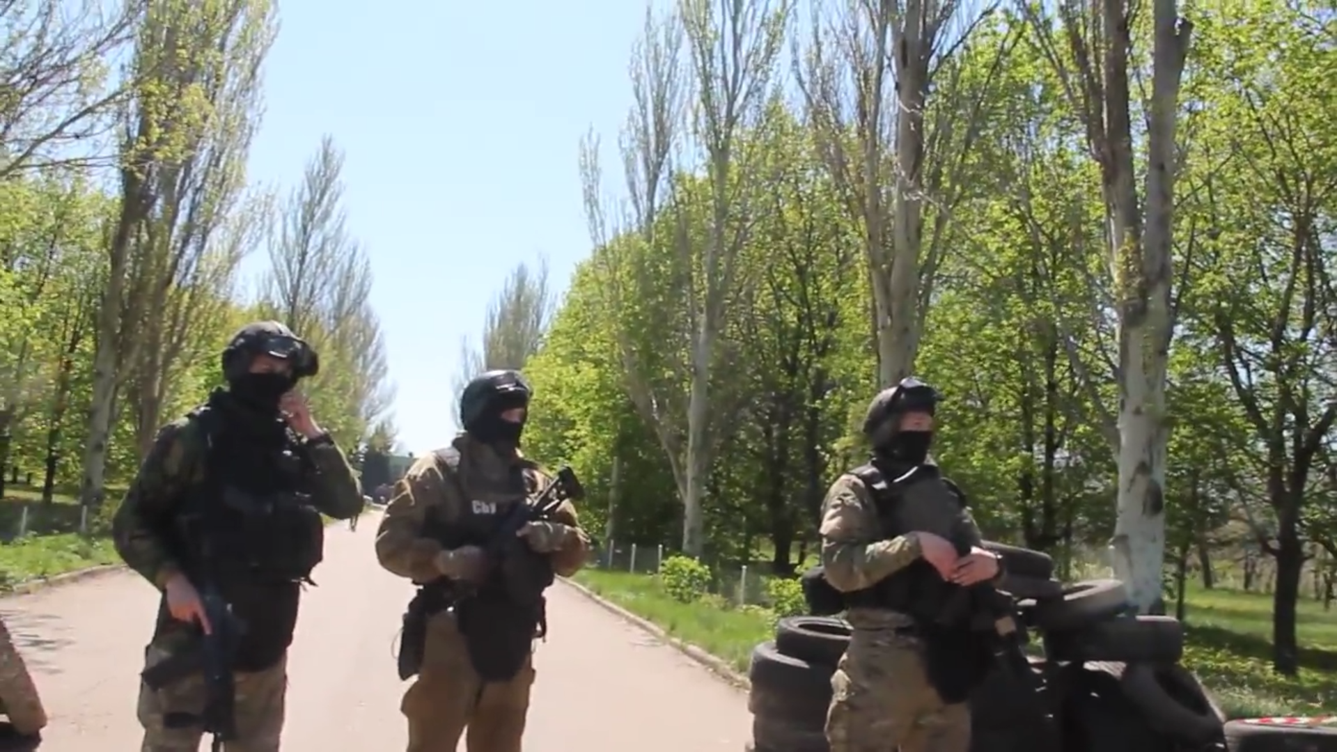 SBU agents blocking off an area in Kramatorsk.